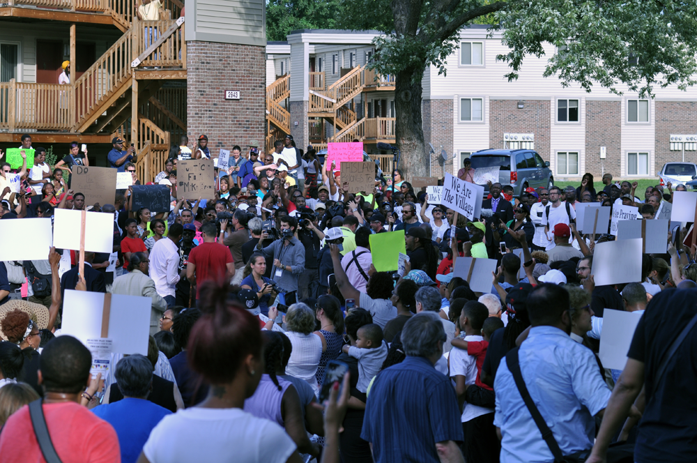 The crowd gathers.